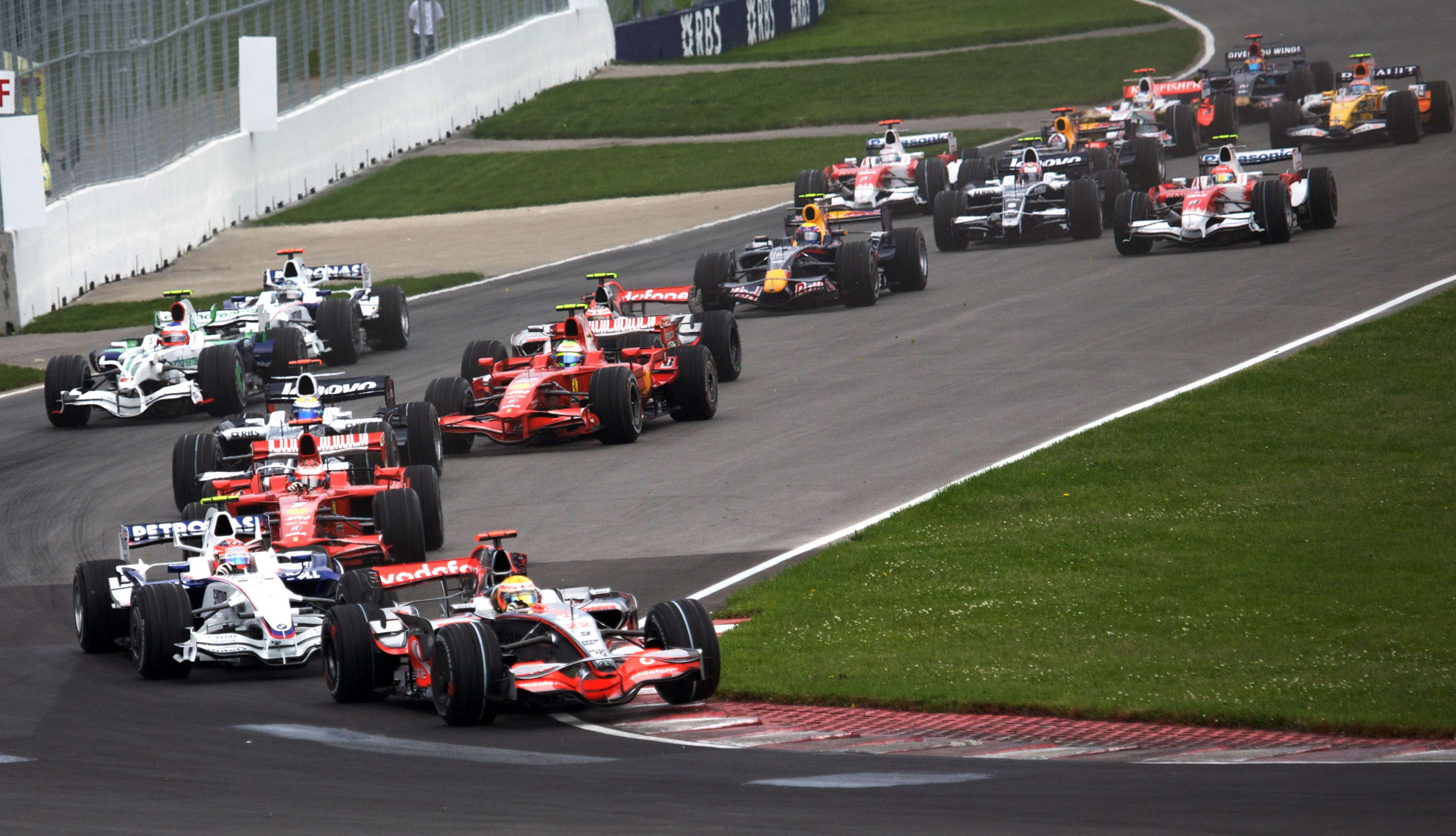 Lewis Hamilton (McLaren) leading at the start of the 2008 Canadian GP, and Robert Kubica (BMW Sauber), Kimi Räikkönen (Ferrari), Fernando Alonso (Renault), Nico Rosberg (Williams) and Felipe Massa (Ferrari), all hold their positions. Nick Heidfeld (BMW Sauber) goes wide behind Rubens Barrichello (Honda).